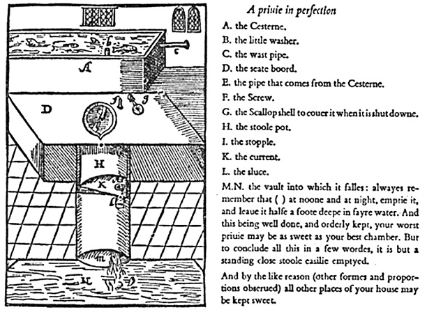 Waste disposal: Harington's flush toilet descibred in A New Discourse of a Stale Subject, called the Metamorphosis of Ajax, 1596